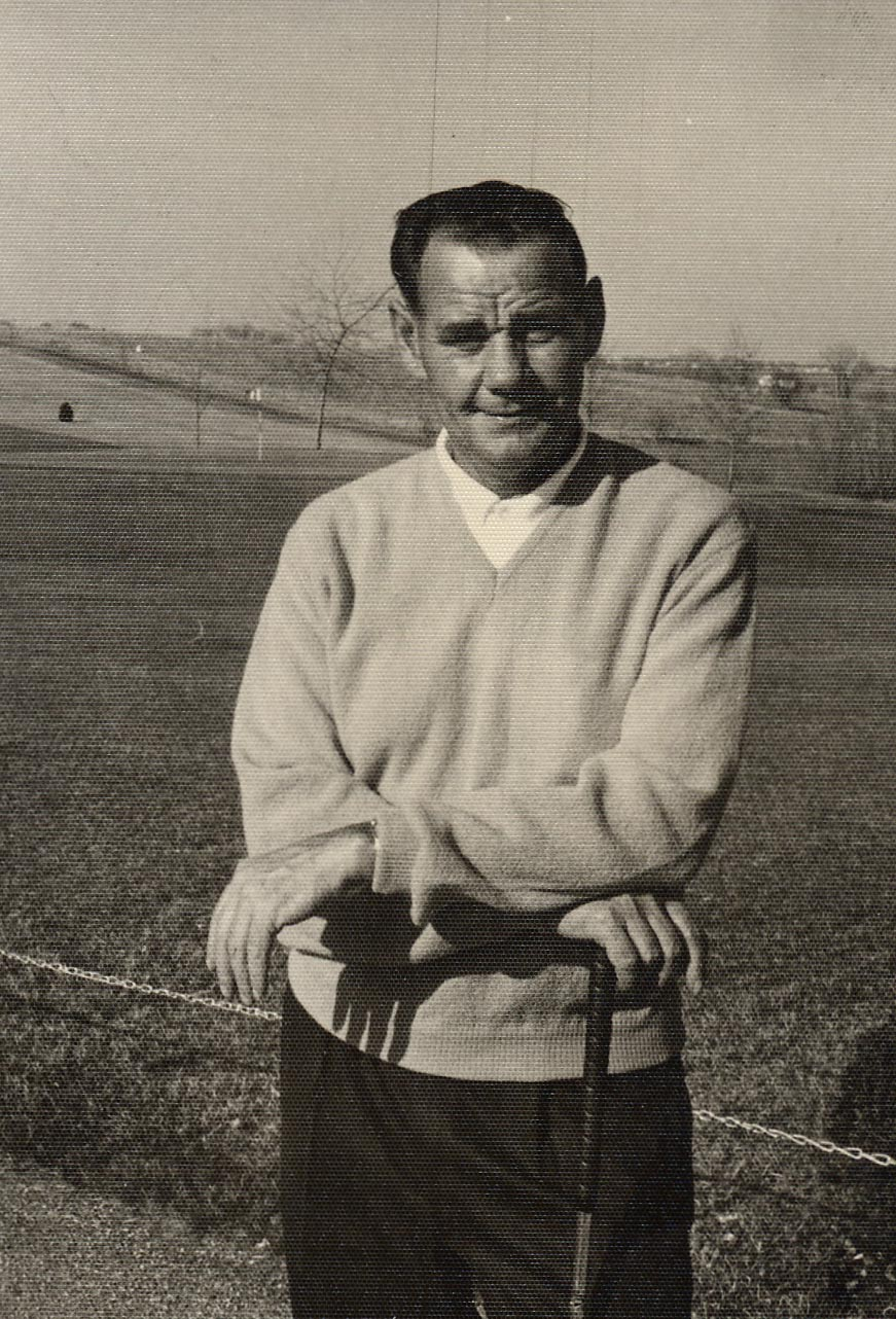 Bob Fry photo taken at Crow Valley Golf Club in Bettendorf, Iowa